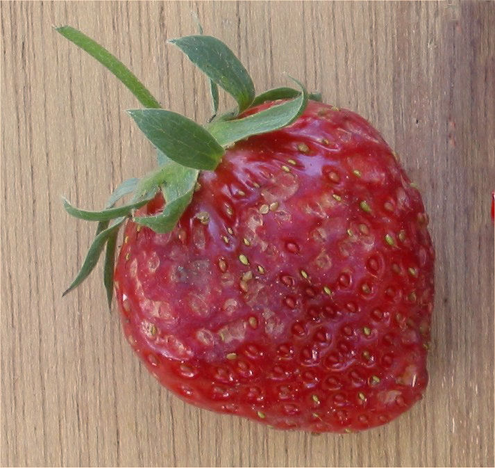 Strawberry fruit damaged by a mouse eating the seeds.